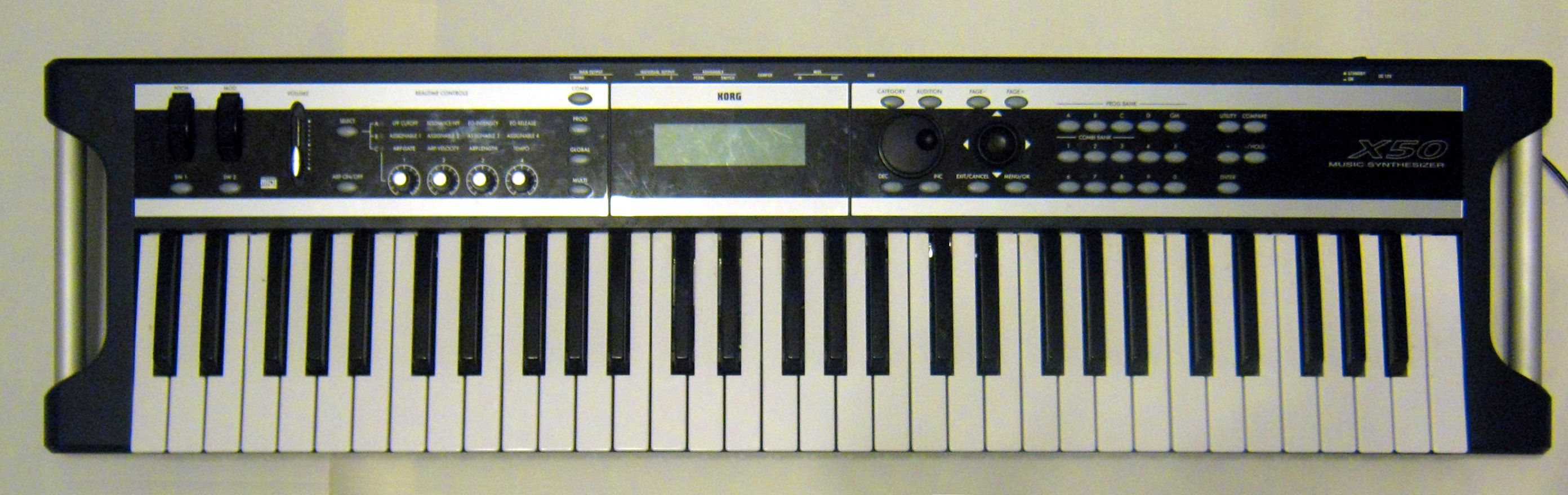 Korg X50 (61 key portable synthesizer), in my house